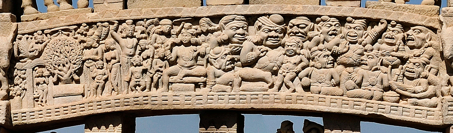 Temptation of the Buddha with Mara and his daughters and the demons of Mara fleeing Sanchi Stupa 1 Northern Gateway. Marshall p.55